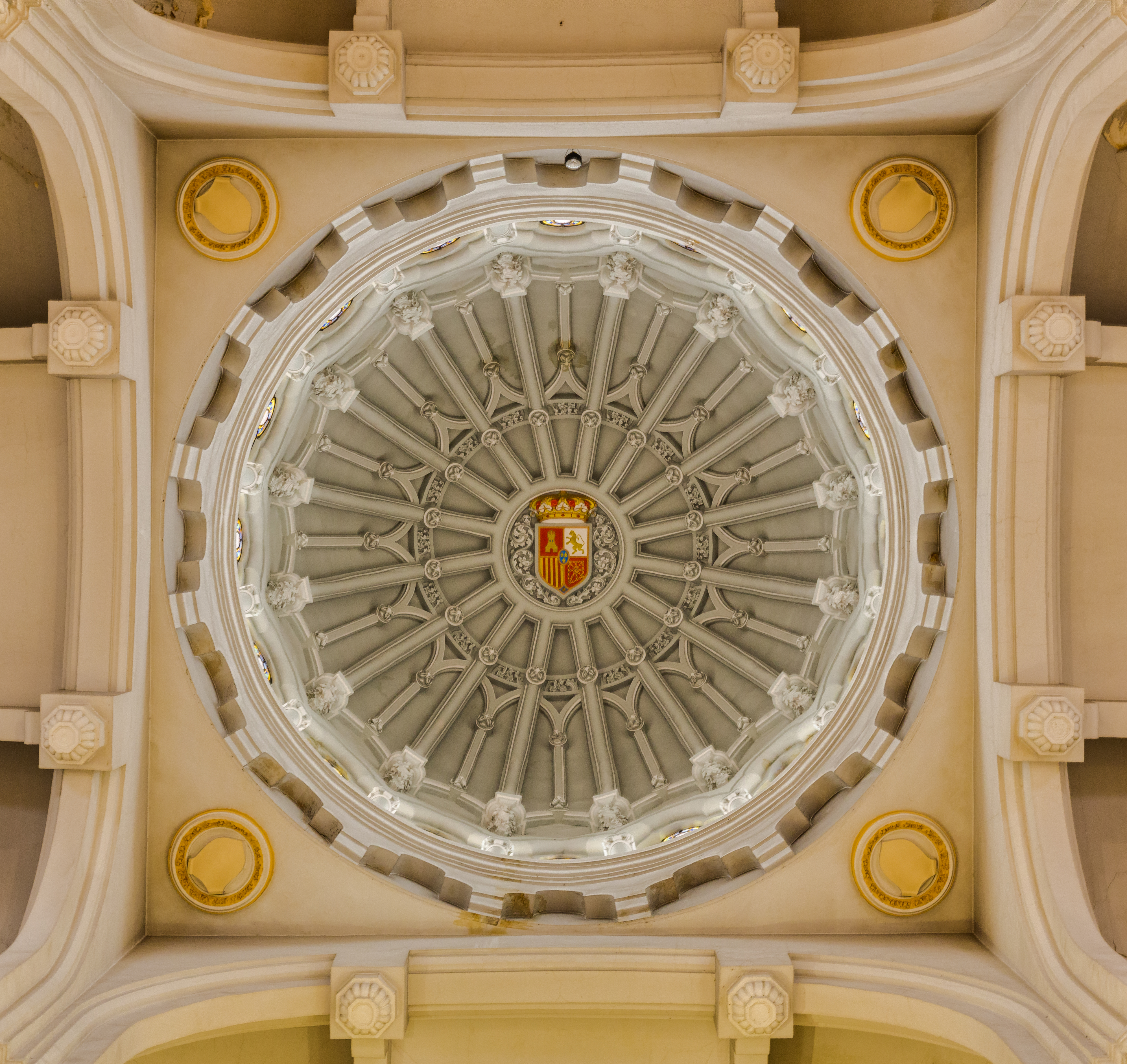 Church of Santa Teresa and San José, Madrid, Spain